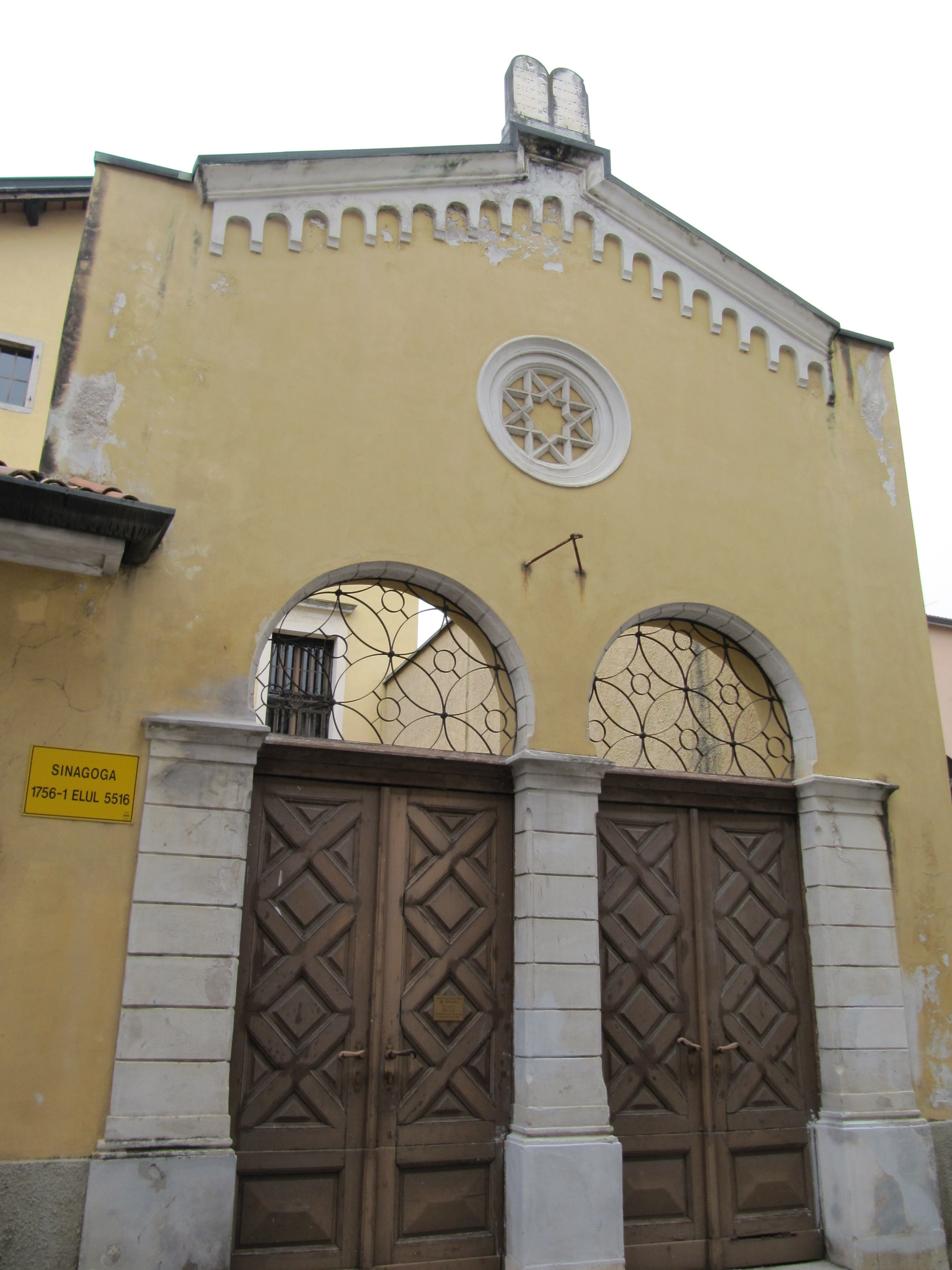 the Synagogue of Gorizia, built in XVIII century